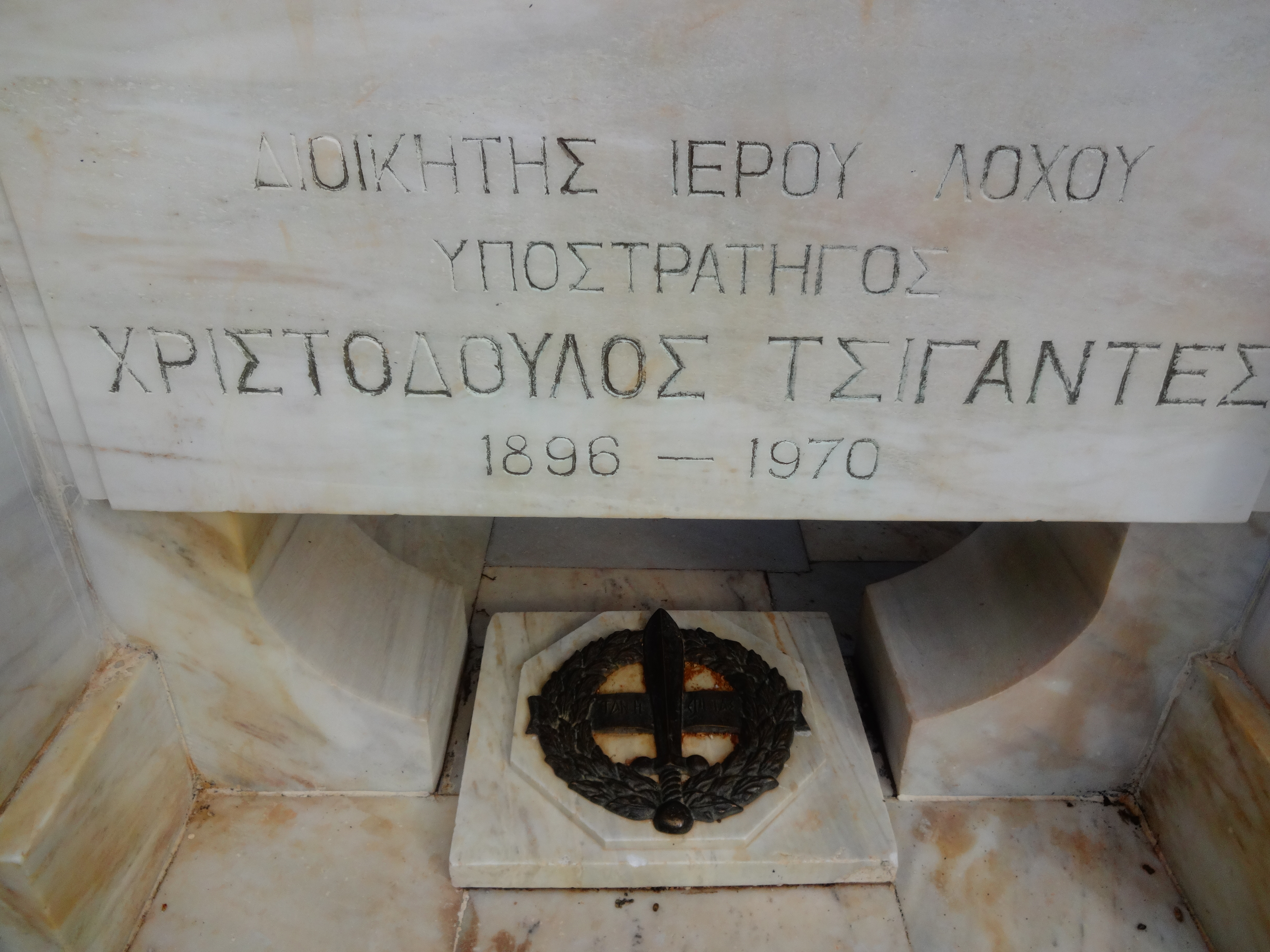 Niche with ashes of general C.Tsigantes under Monument of Sacred Band (World War II) in Athens, Greece